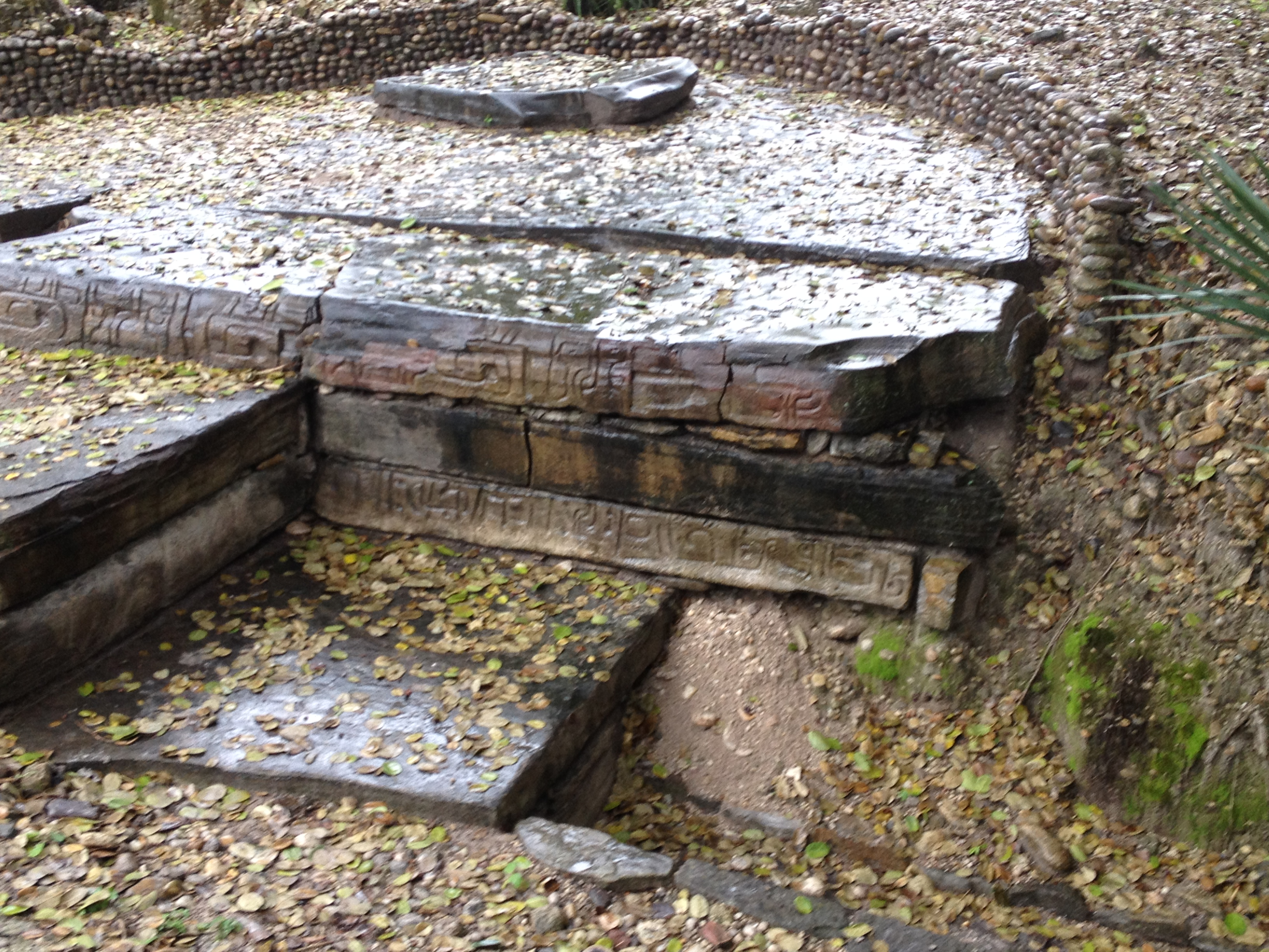 Caja de Agua